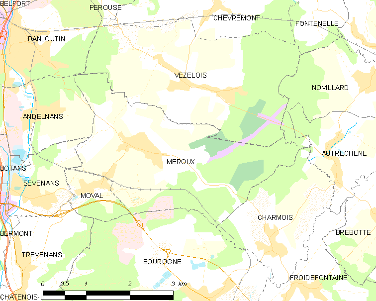 Map of French municipality Meroux